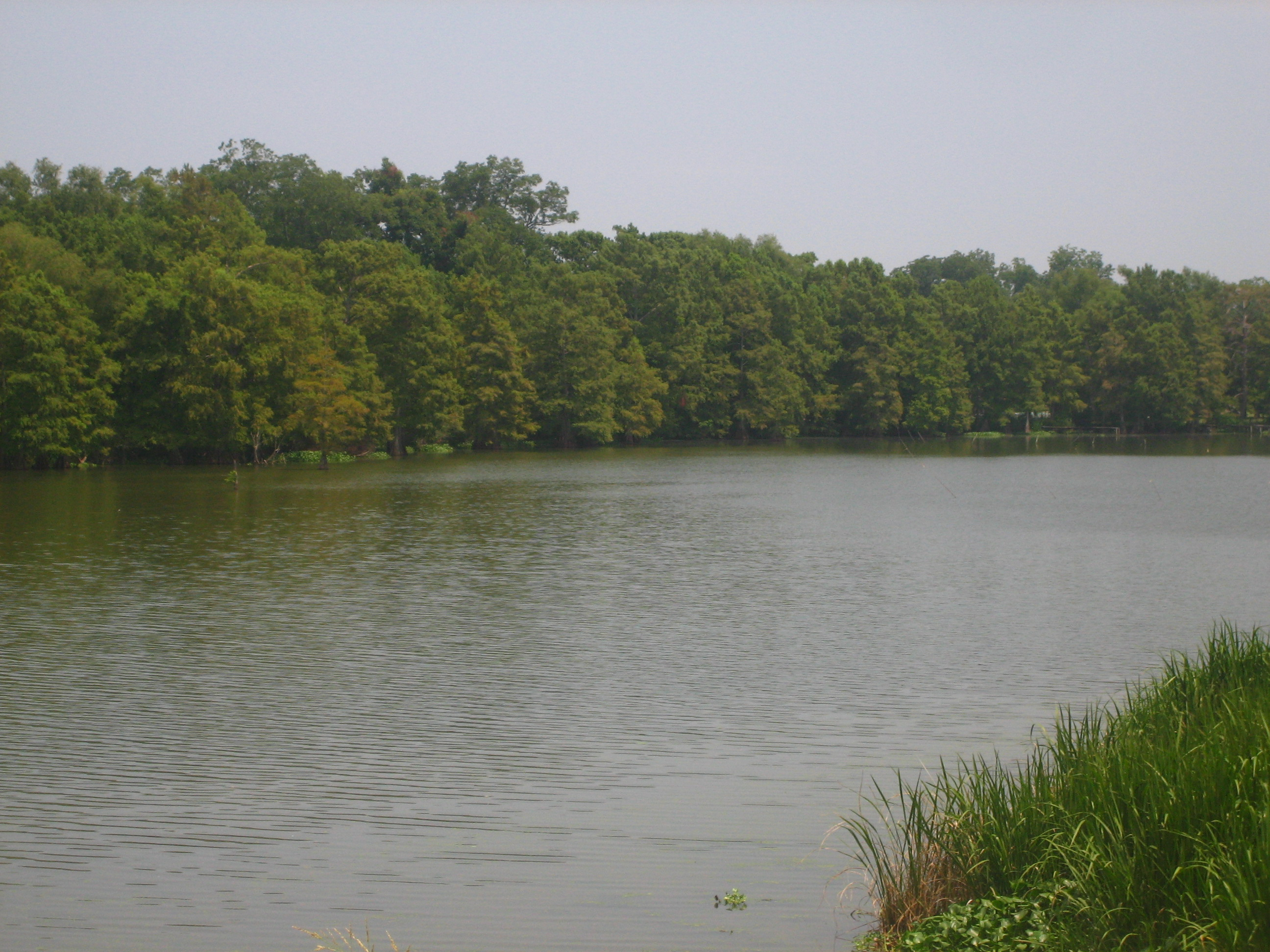 I took photo on Aug. 2, 2008.Billy Hathorn (talk) 13:44, 16 August 2008 (UTC)